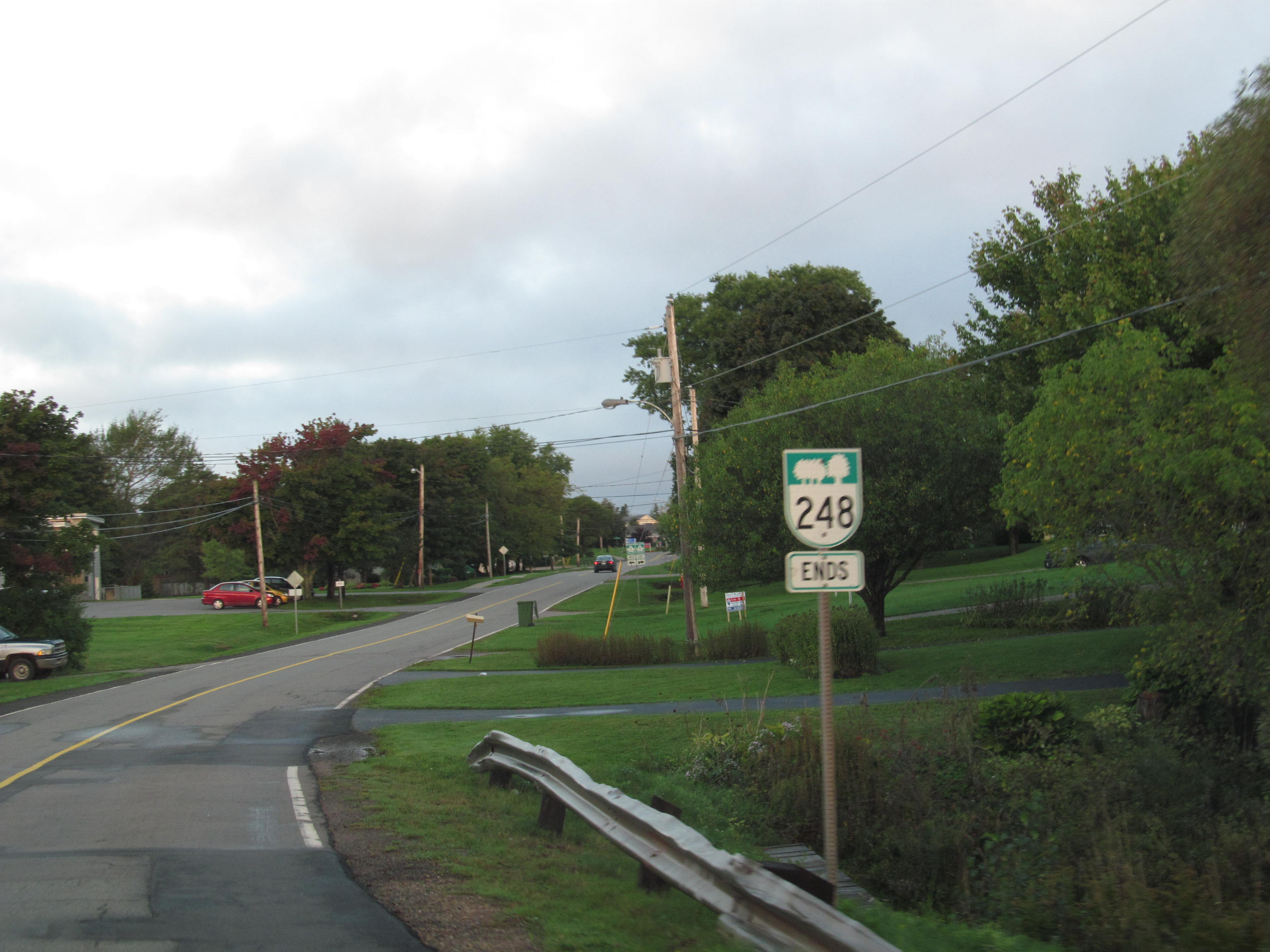 Prince Edward Island Route 248 approaching its southern terminus, Prince Edward island Route 1 in the town of Cornwall.